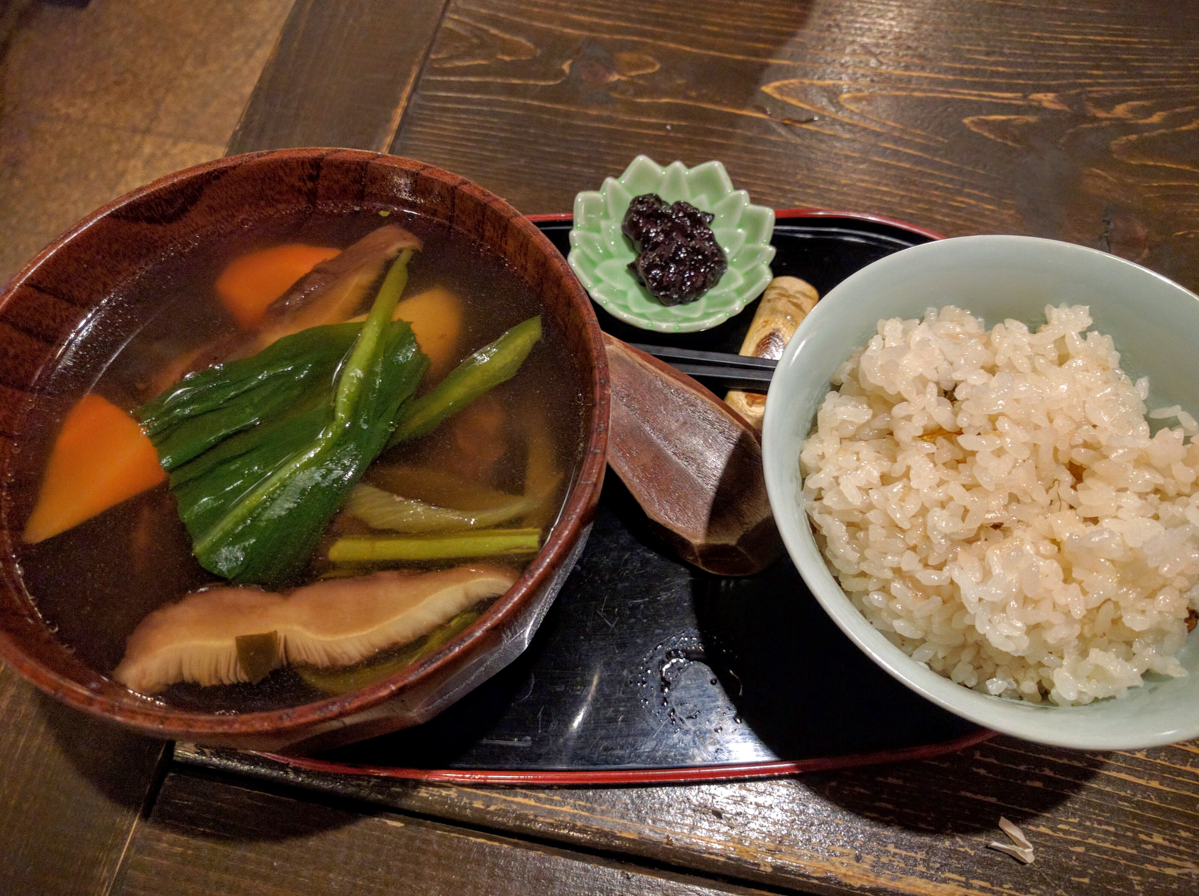 An Ainu "set meal" with venison and mountain vegetable soup (yuk ohaw), fermented salmon liver (mefun) and rice mixed with grains. Served at Cafe Poronno, Akan Kotan, Hokkaido, Japan.